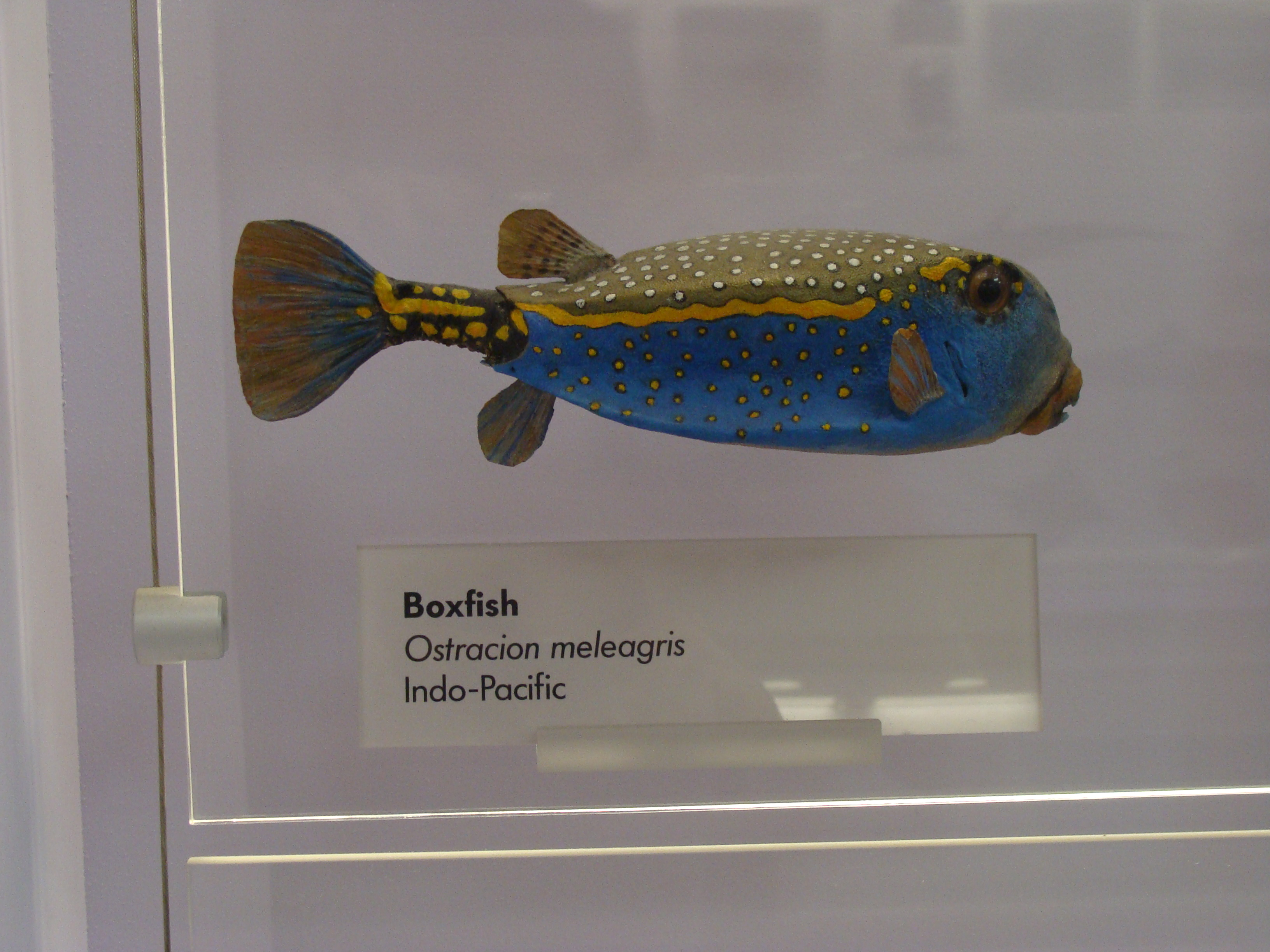 Ostracion meleagris (Whitespotted boxfish) in the Natural History Museum of London